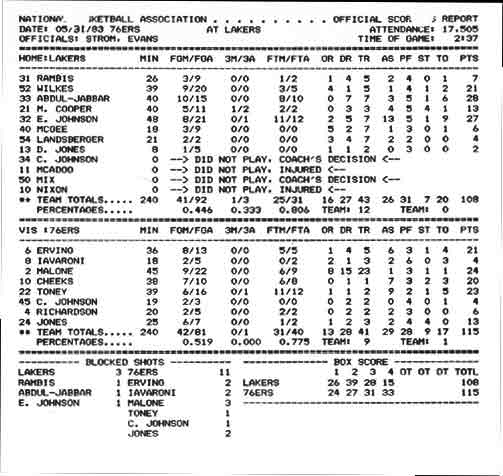 Facsimile of the official scorer's report for Game 4 of the 1983 NBA World Championship Series between the Philadelphia 76ers and the Los Angeles Lakers. This was the last NBA Finals played entirely in May. With this game, Magic Johnson set a Finals record with his fifth consecutive game of 10 or more assists. Moses Malone attained a 20-20 in the series finale.